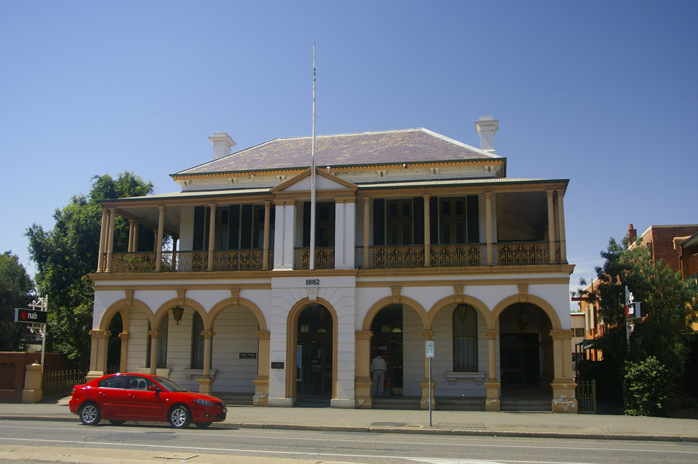 Former CBC Bank, Wagga Wagga (Built 1882) Currently the National Australia Bank (NAB) Wagga Wagga branch which closed in July 2008[1] after 126 years operating as a bank building.